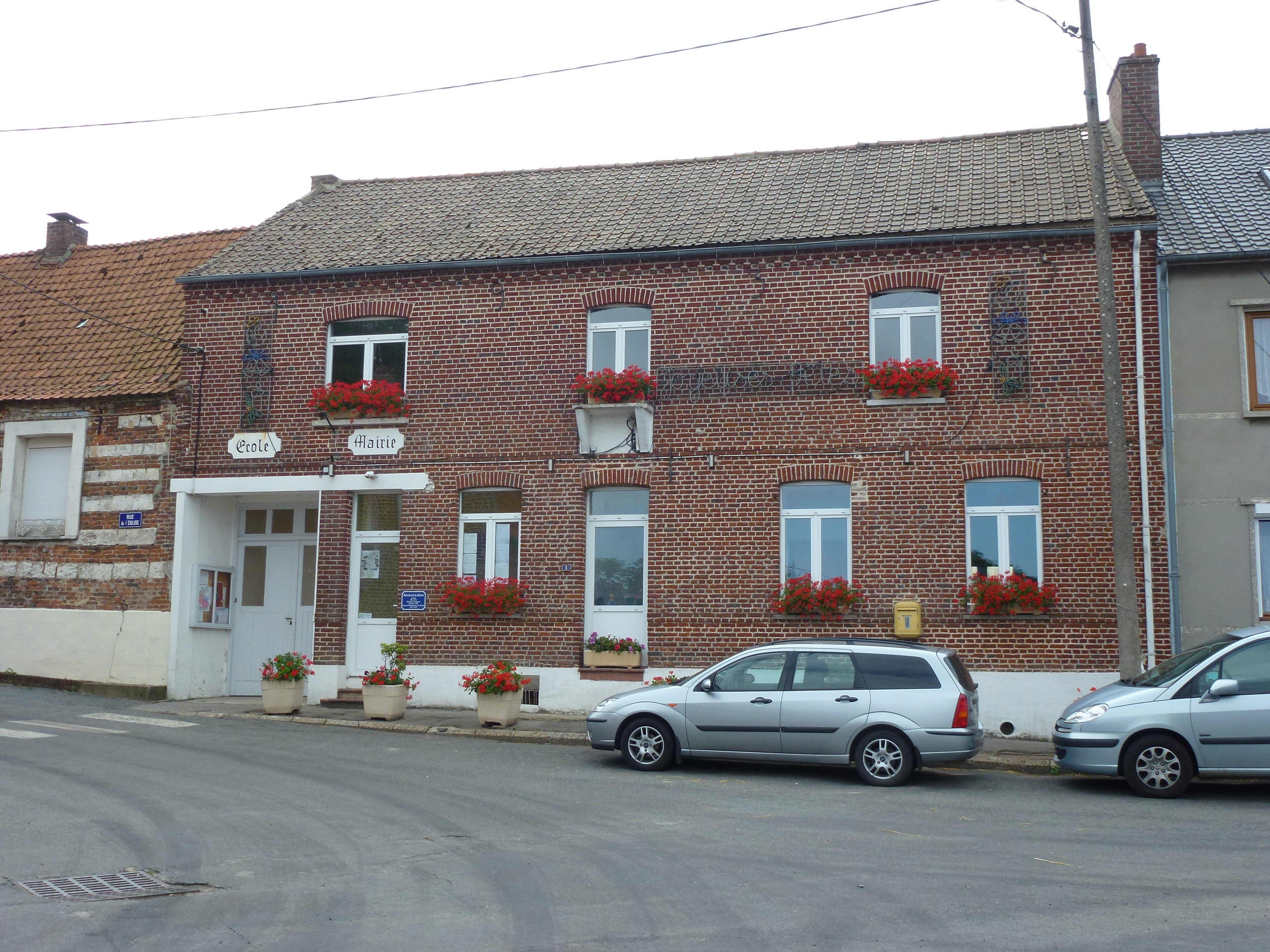 Herbelles (Pas-de-Calais, Fr) mairie - école